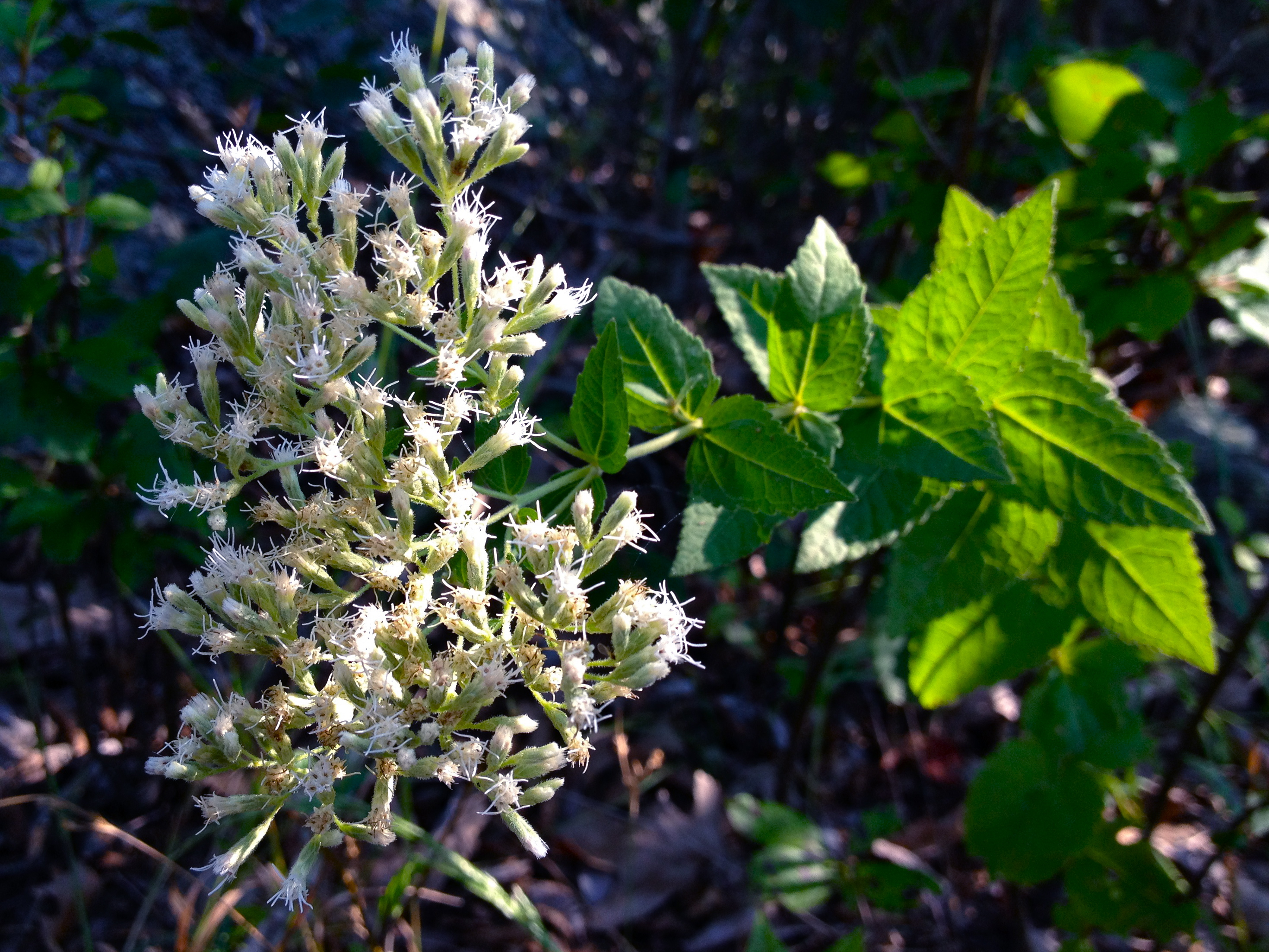 Photo of Eupatorium rotundifolium in flower. This is a native plant growing wild in Great Falls Park, Fairfax county Virginia, USA. This species is a member of the Asteraceae family.